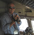 Edwin Hutchins onboard an airline flight deck